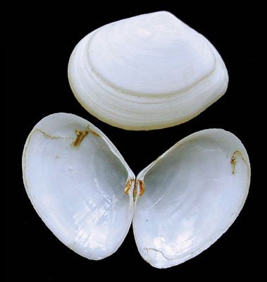 (Abra alba); marine bivalved shell commonly occurring in the North Sea.